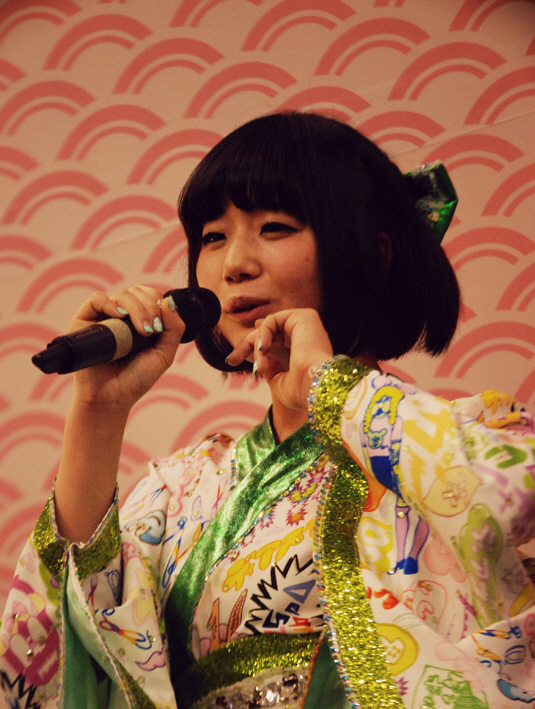 dempagumi.inc // でんぱ組.inc Live in Jakarta // KOKORONOTOMO